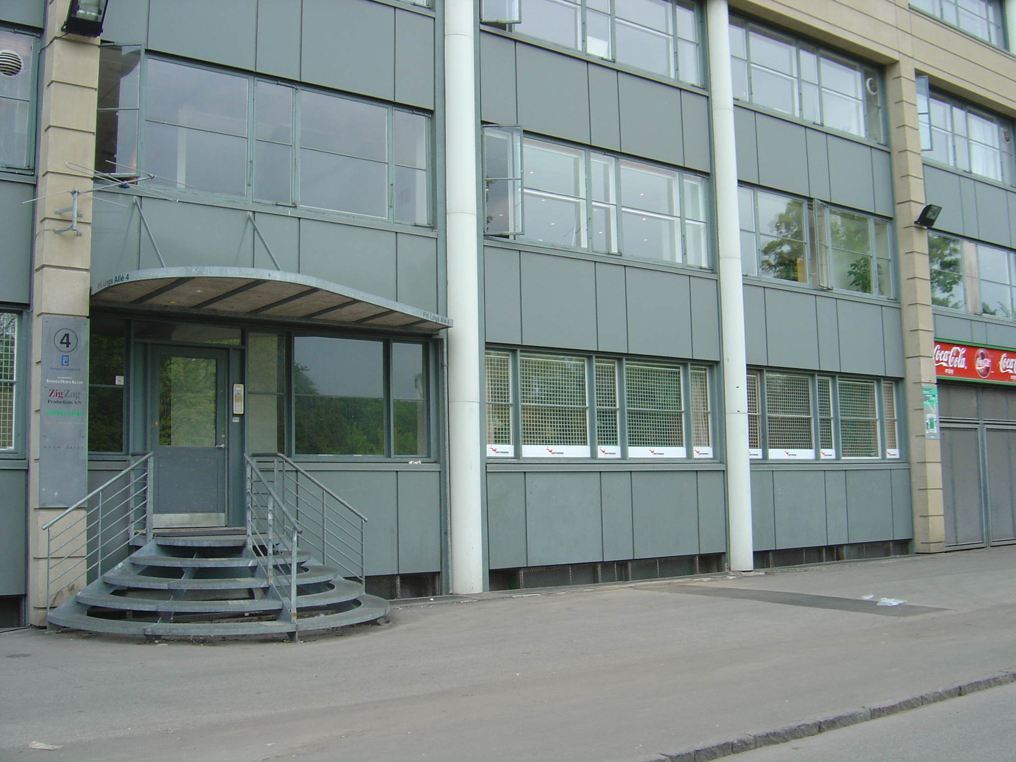 Østerbro Idræts-Forening - the old club rooms for a Danish association football club were part of the north stand in Parken, Copenhagen. Seen from the northeast side, in Fælledparken on Østerbro.